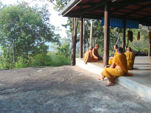 talk dharma Location: Sakhon Nakhon Thailand.